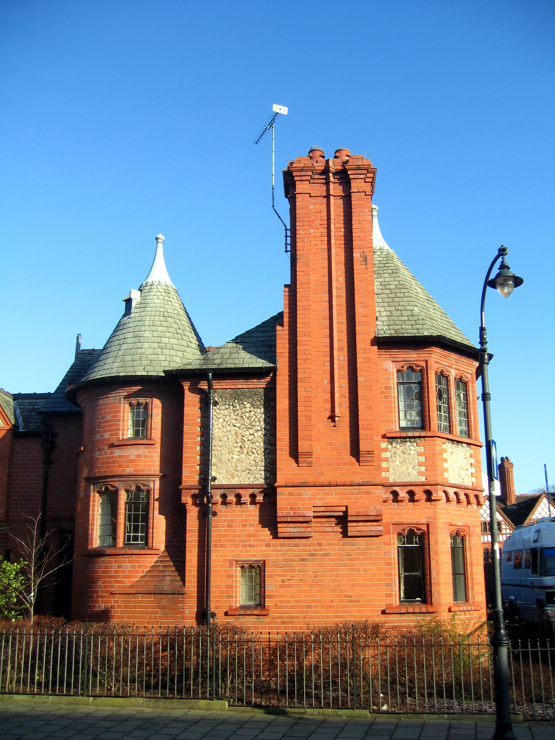 Photograph of 13 Bath Street, Chester